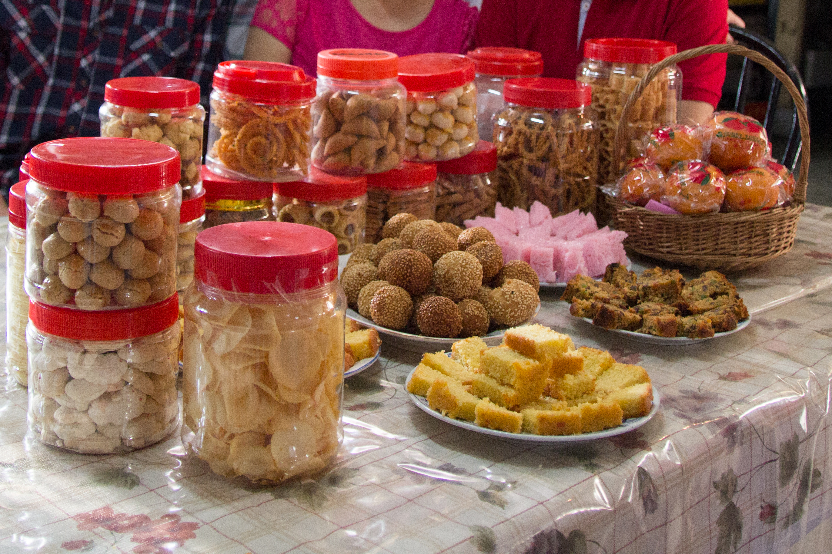 Home baked Chinese New Year cookies together with cakes and mandarin orange in Malaysia.